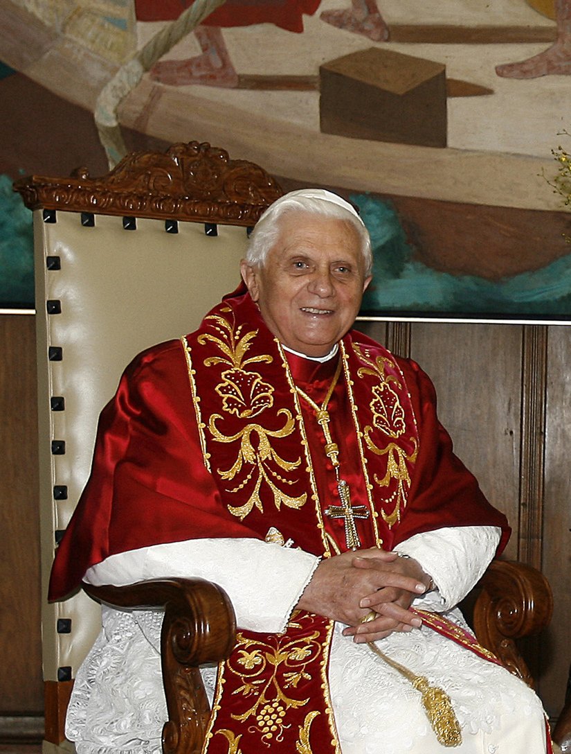 Pope Benedict XVI during visit to São Paulo, Brazil.